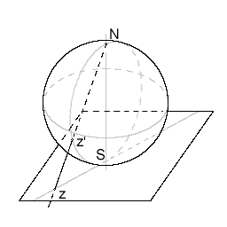 Display of complex number on the Riemann sphere.